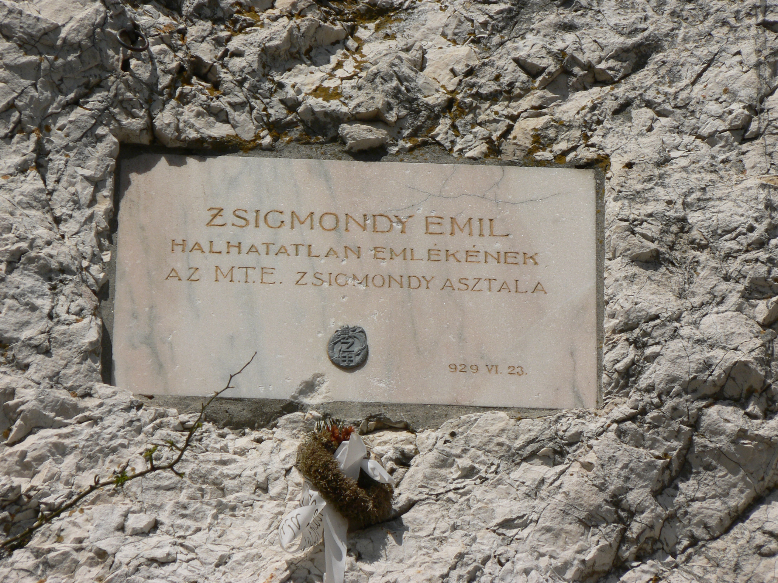 Zsigmondy Emil memorial tablet